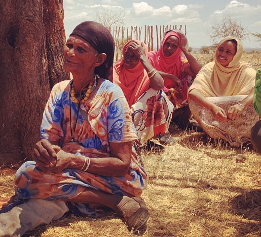 Borana Oromo women in Shambani, Kenya.